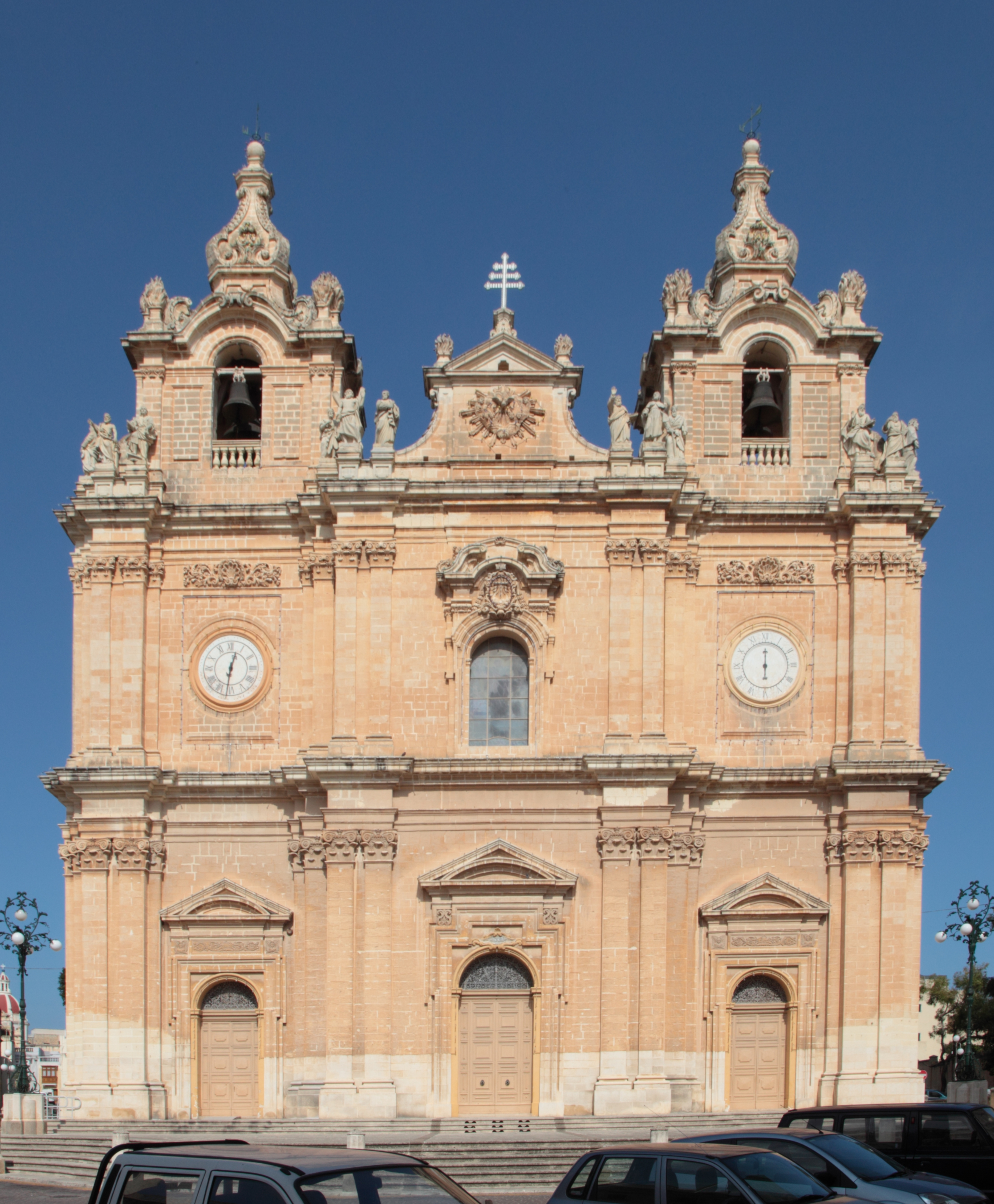 Parish church at Birkirkara, Malta